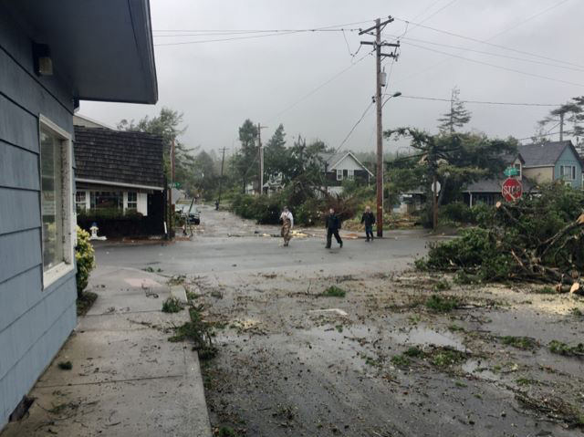 Debris blocks the road in the coastal town of Manzanita following a tornado this morning.